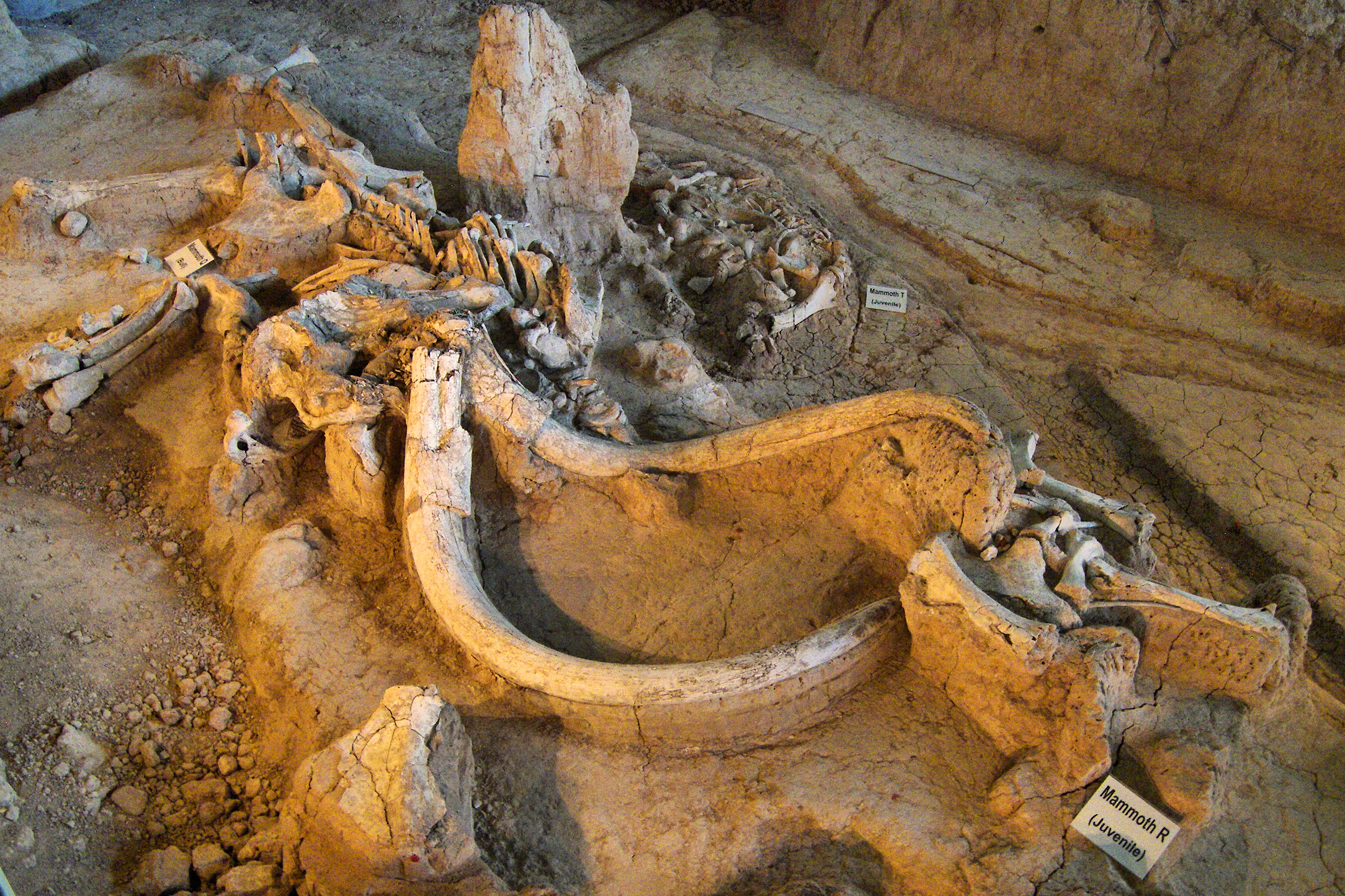 Mammoth remains at the Waco Mammoth National Monument. Mammoth Q is a bull mammoth. Mammoths R and T were juveniles. Mammoth T was buried 68,000 years ago. Mammoth Q and R were buried 15,000 years later.